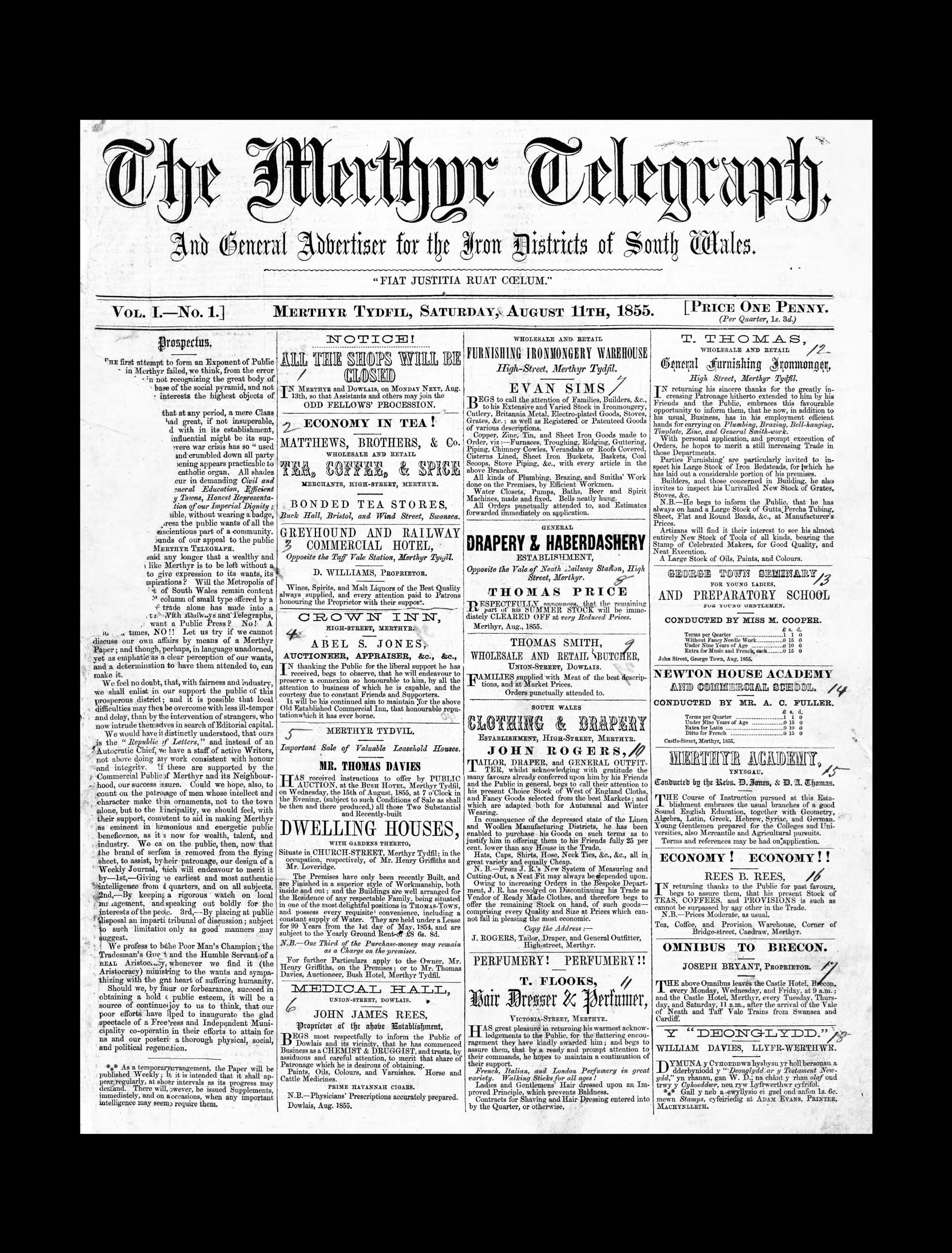 Front page of the earliest surviving copy of the Welsh newspaper The Merthyr Telegraph